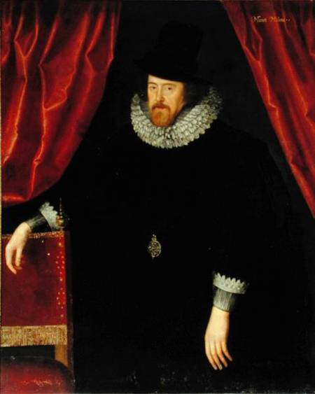 Portrait of Sir Francis Bacon (1561–1626), 1st Baron Verulam and Viscount St Albans.